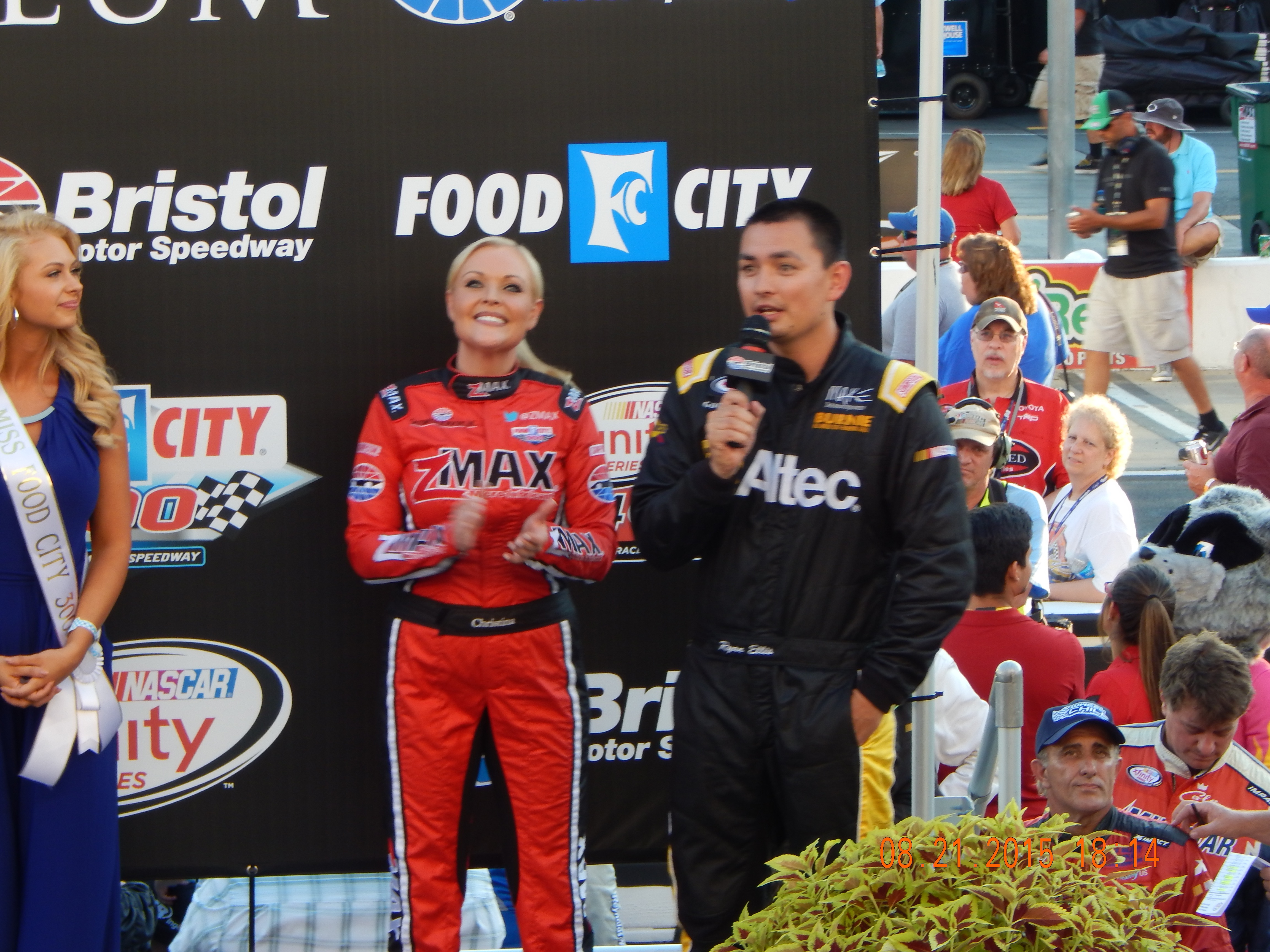 Ryan Ellis being introduced at Bristol Motor Speedway for the 2015 Food City 300.